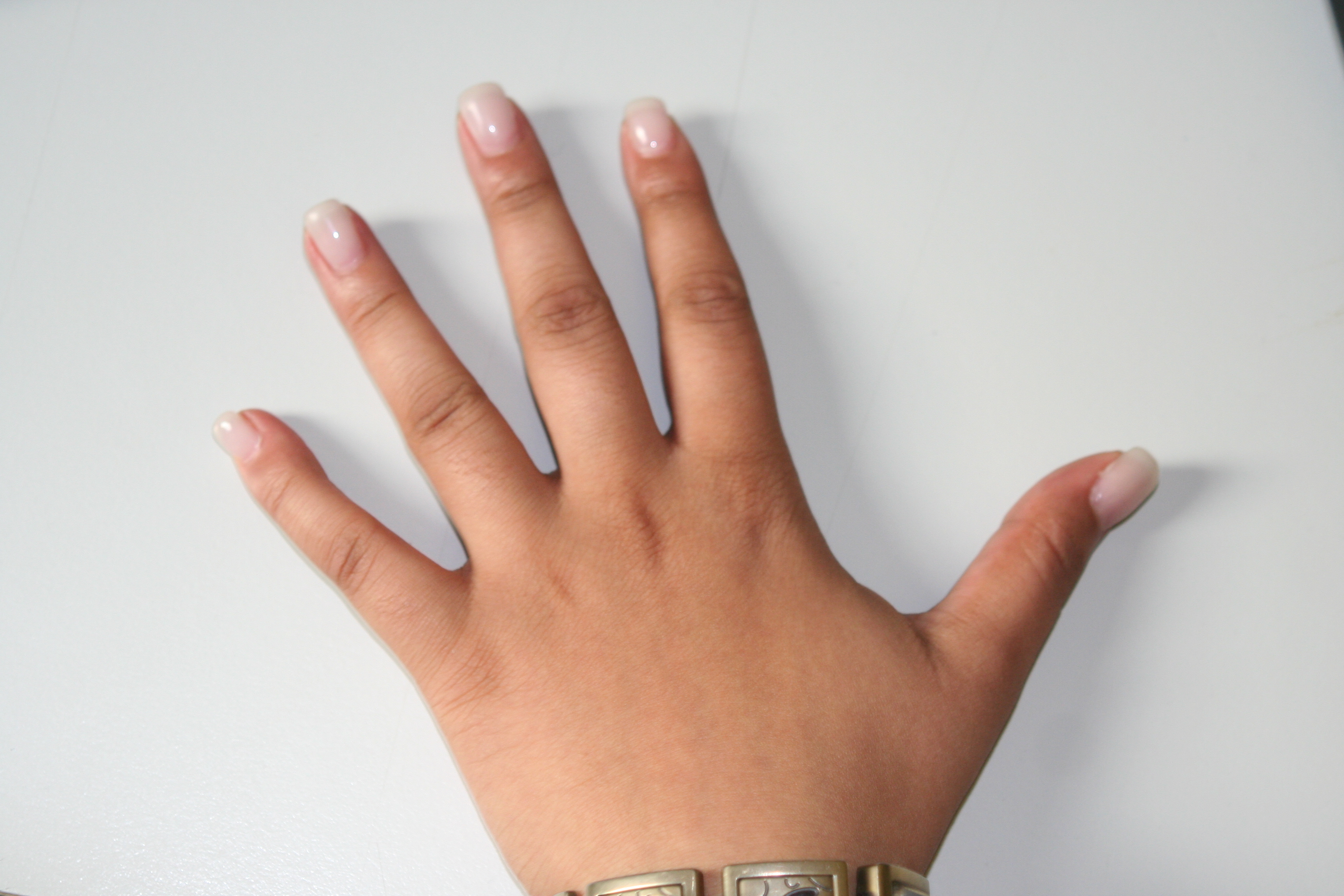 Fingers of the left hand.